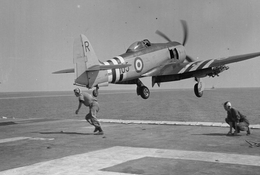 A Hawker Sea Fury FB.11 fighter (s/n VR943) of No. 804 Squadron, Fleet Air Arm, is catapulted from the British light fleet aircraft carrier HMS Glory (R62), during Korean war operations circa June 1951.